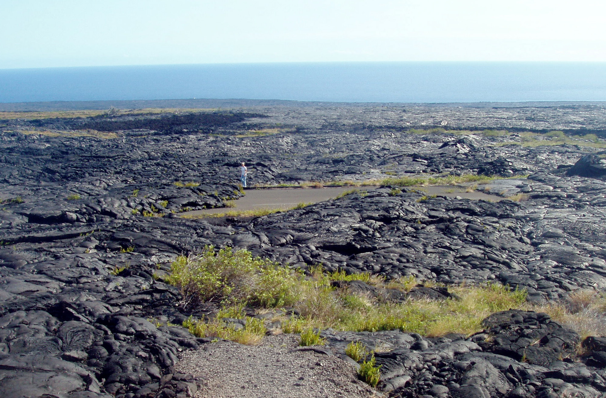 Solidified lava covering the Chain of Craters Road in Hawai'i Volcanoes National Park.